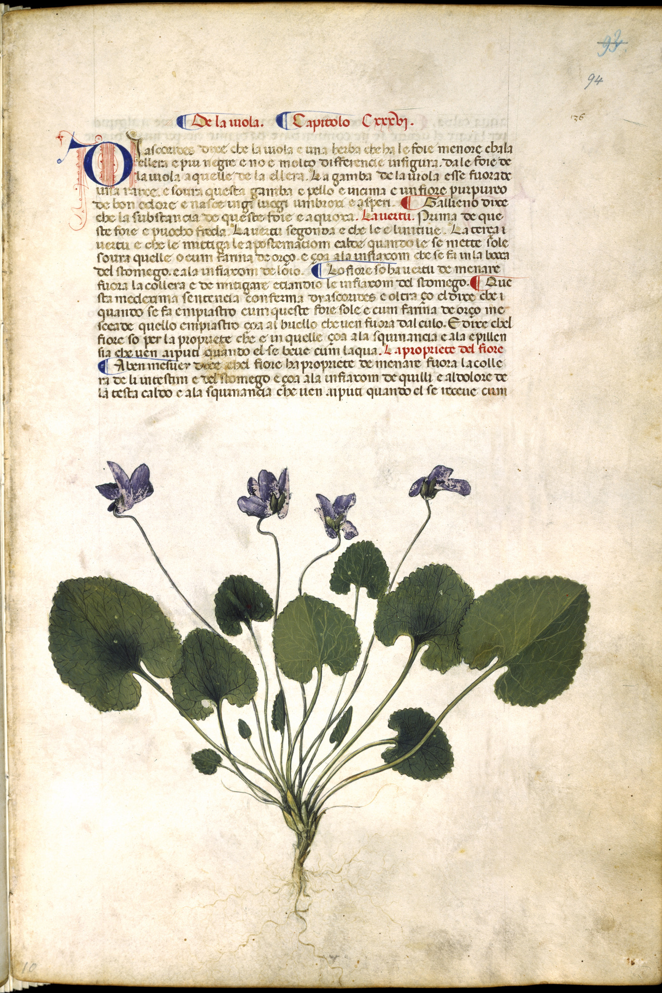 Violet plant (Whole folio) A scented violet plant with leaves and flowers; text above.